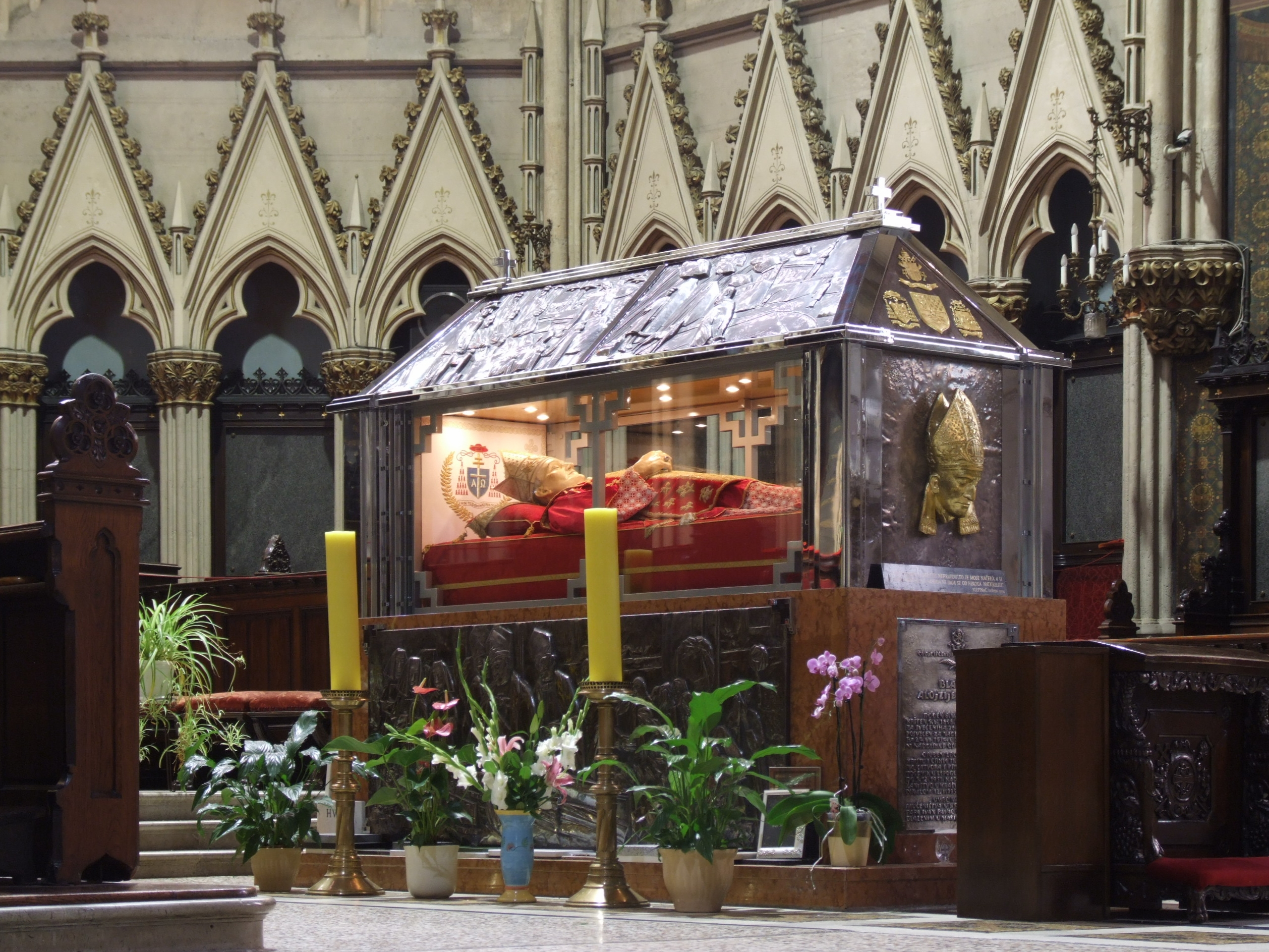 Sarcophagus with plastic doll as the imitation figure of blessed Alojzije Stepinac in Zagreb Cathedral